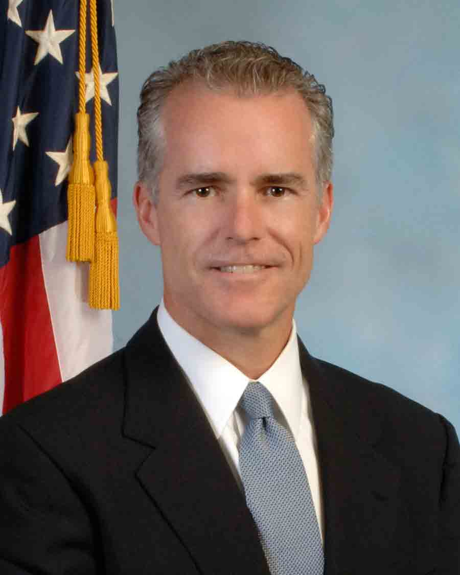 Andrew G. McCabe official photo